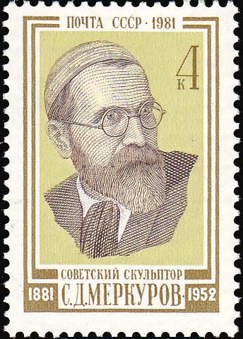 Soviet postage stamp of sculptor Sergey Merkurov (1981)